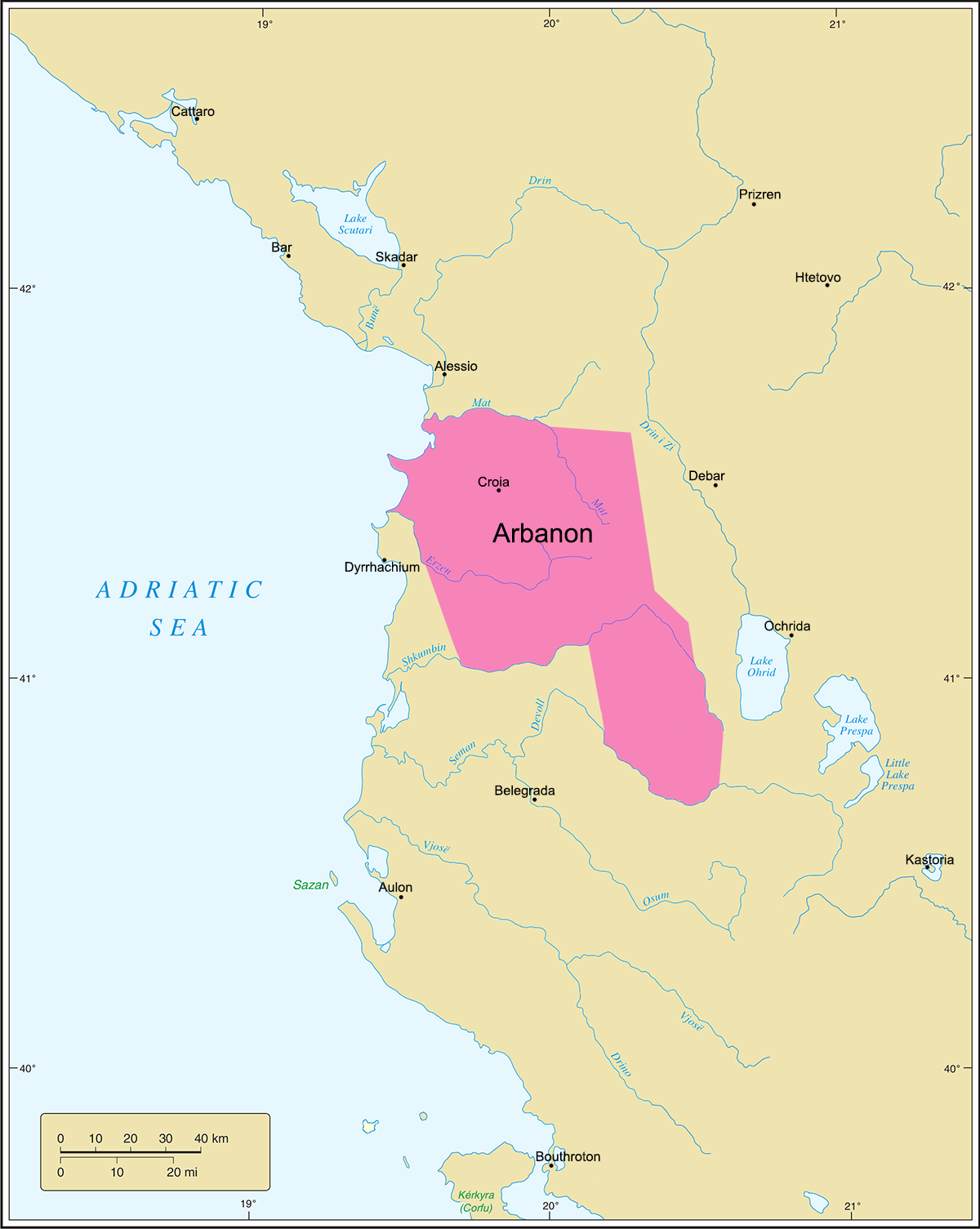 The region of Arbanon in 1210, as part of the Despotate of Epirus